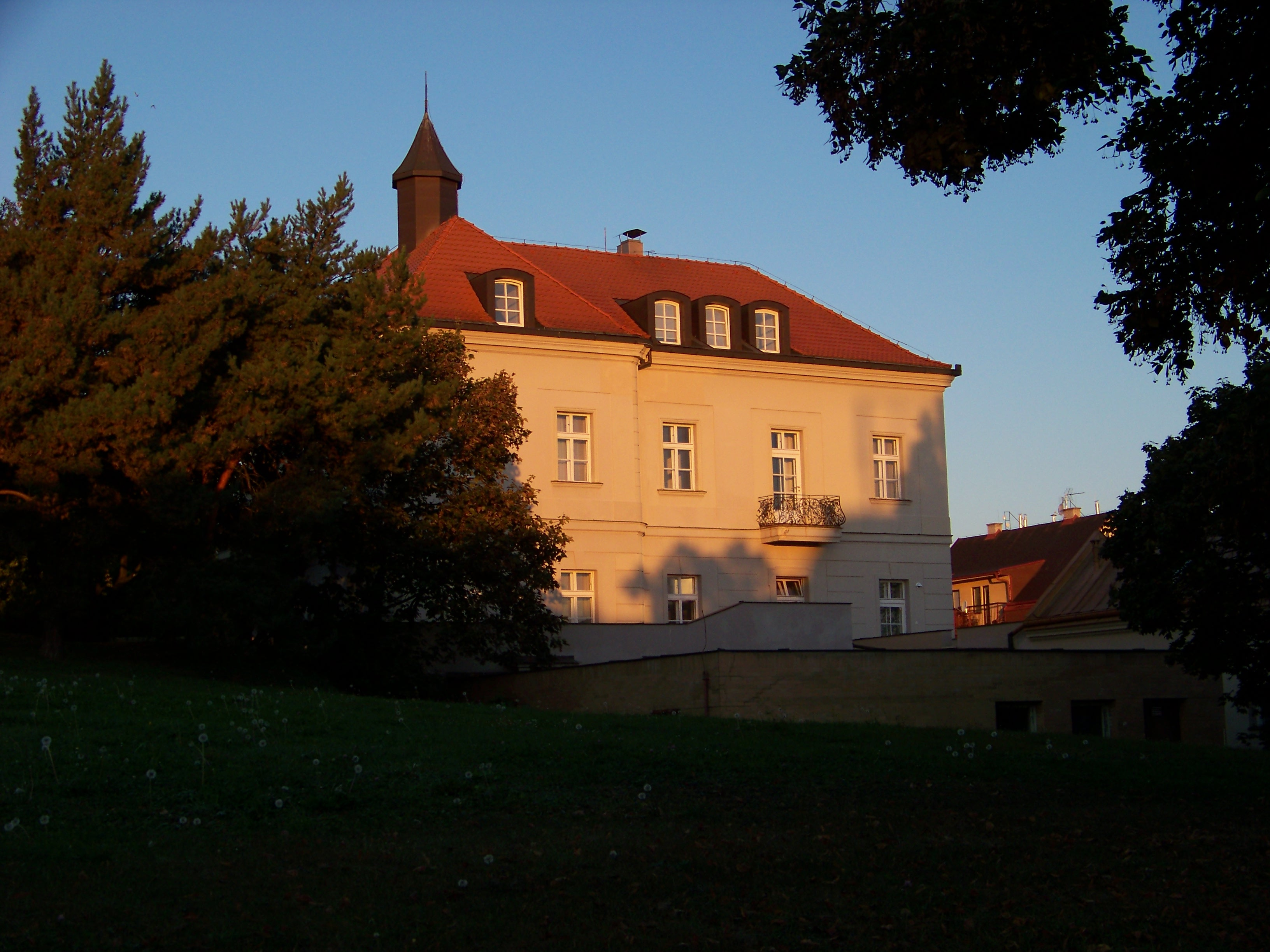 Prague-Smíchov, the Czech Republic. U Sanopzu, Malvazinka estate, headquarters of Malvazinky rehabilitation clinic. - OpenStreetMap(Info)